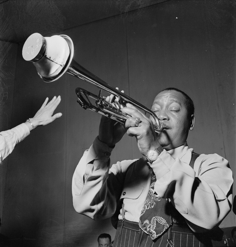 Jonah Jones, Columbia studios, March 1947. Photography by William P. Gottlieb